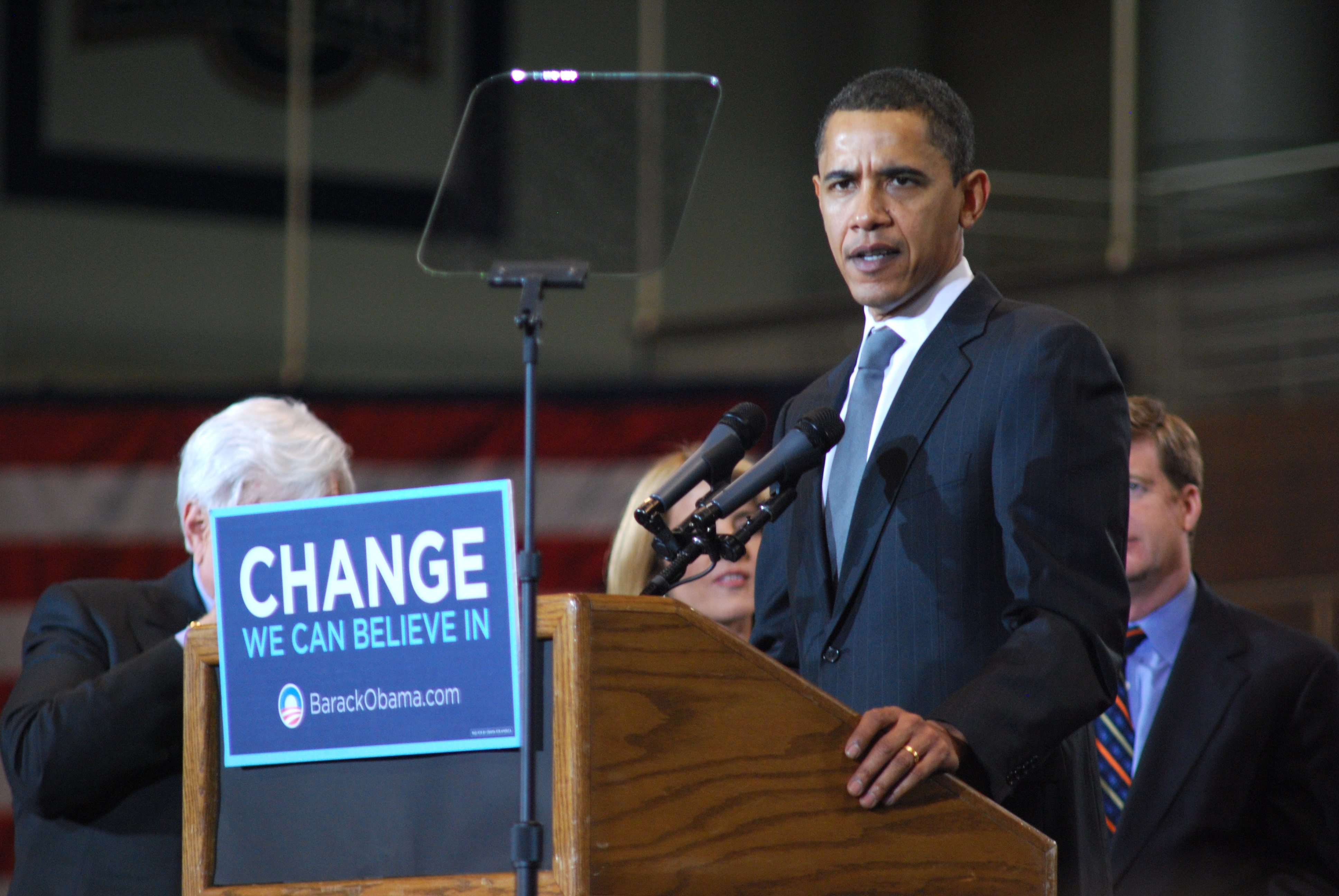 Obama speaks at American University.